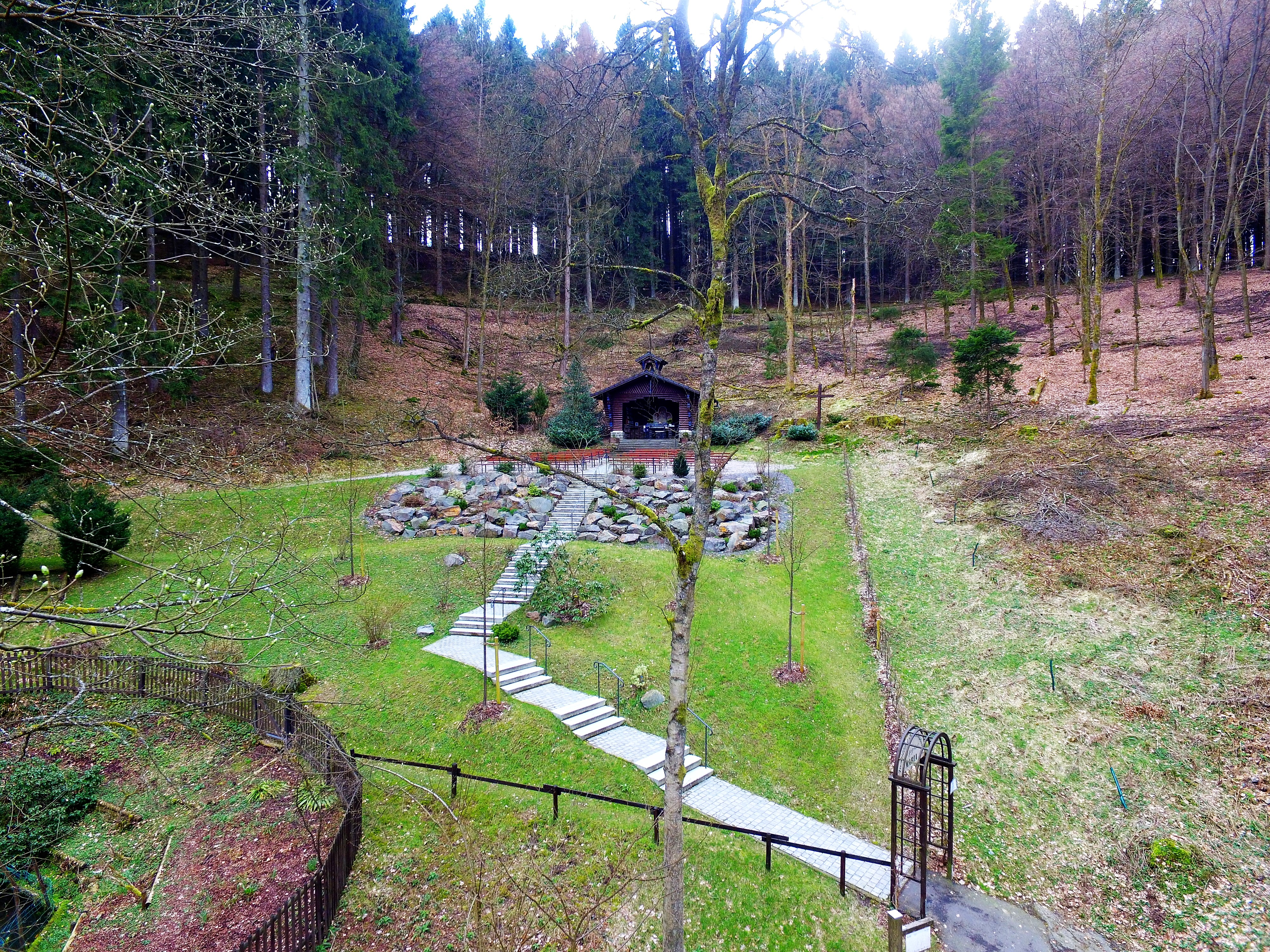 St. Mary Chapel Huenkesohl near Drolshagen, Westfalia, Germany, total view